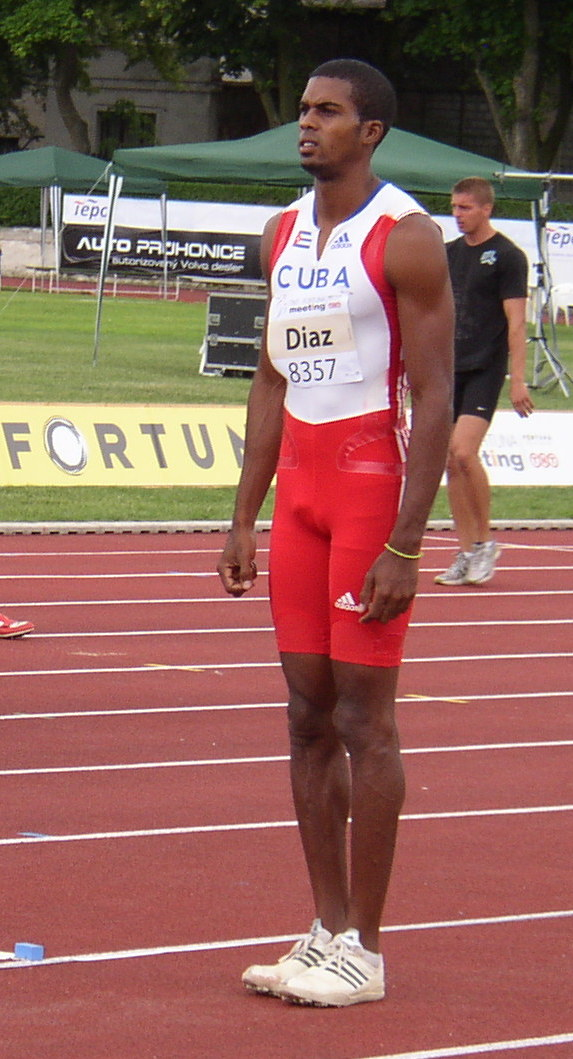 Athlete Yunior Díaz of Cuba prepares for his second attempt in long jump during men's decathlon at 5th edition of the TNT - Fortuna Meeting (IAAF World Combined Events Challenge Meeting, Sletiště Stadium, Kladno, Czech Republic, 15 June 2011, 13:18).